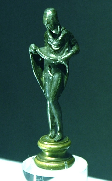 Aphroditus - MARQ Archaeological Museum of Alicante - The beauty of the body. Roman Imperial Bronze, 1st-3rd century AD